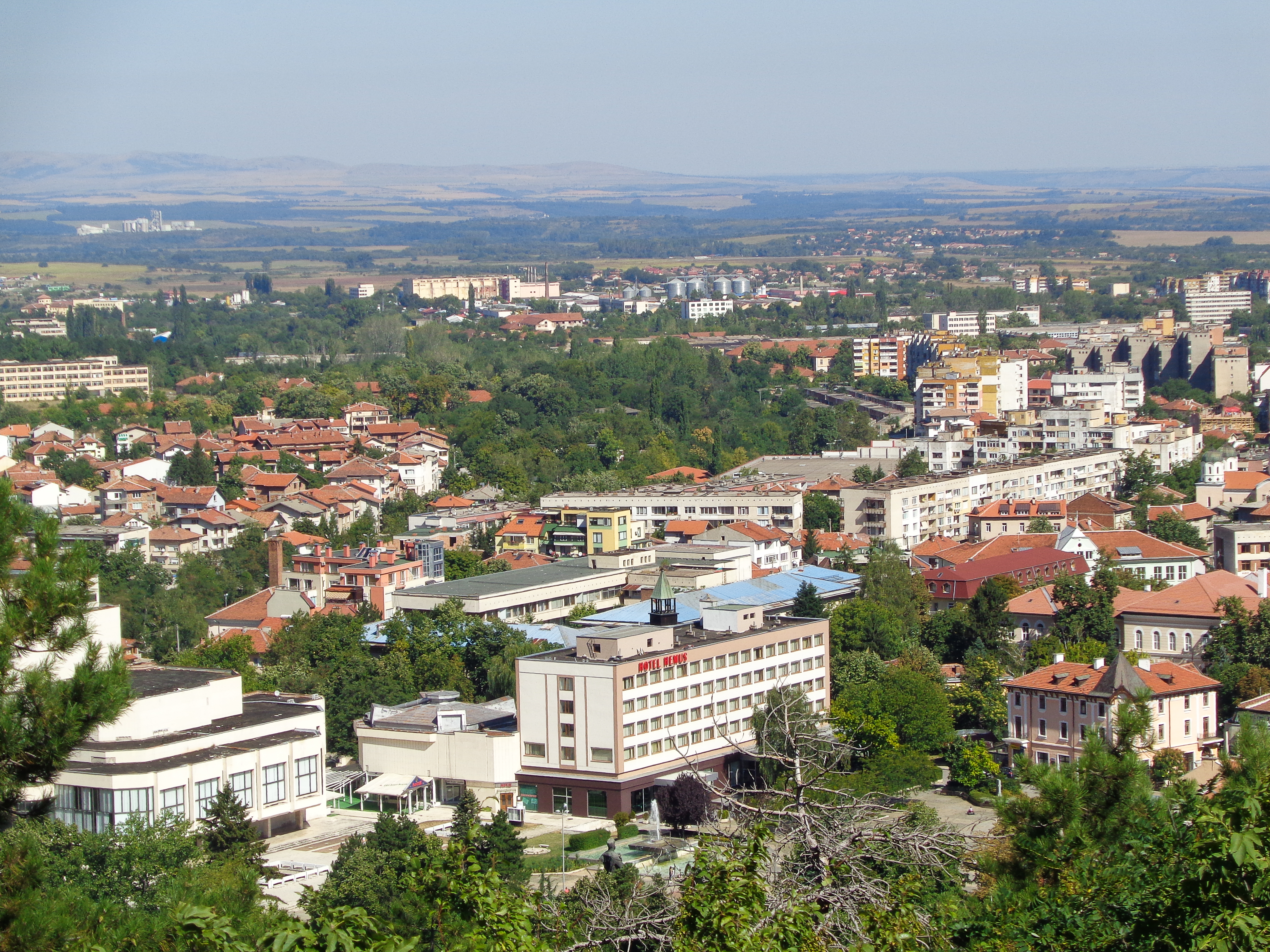 View to Vratsa town from the hut